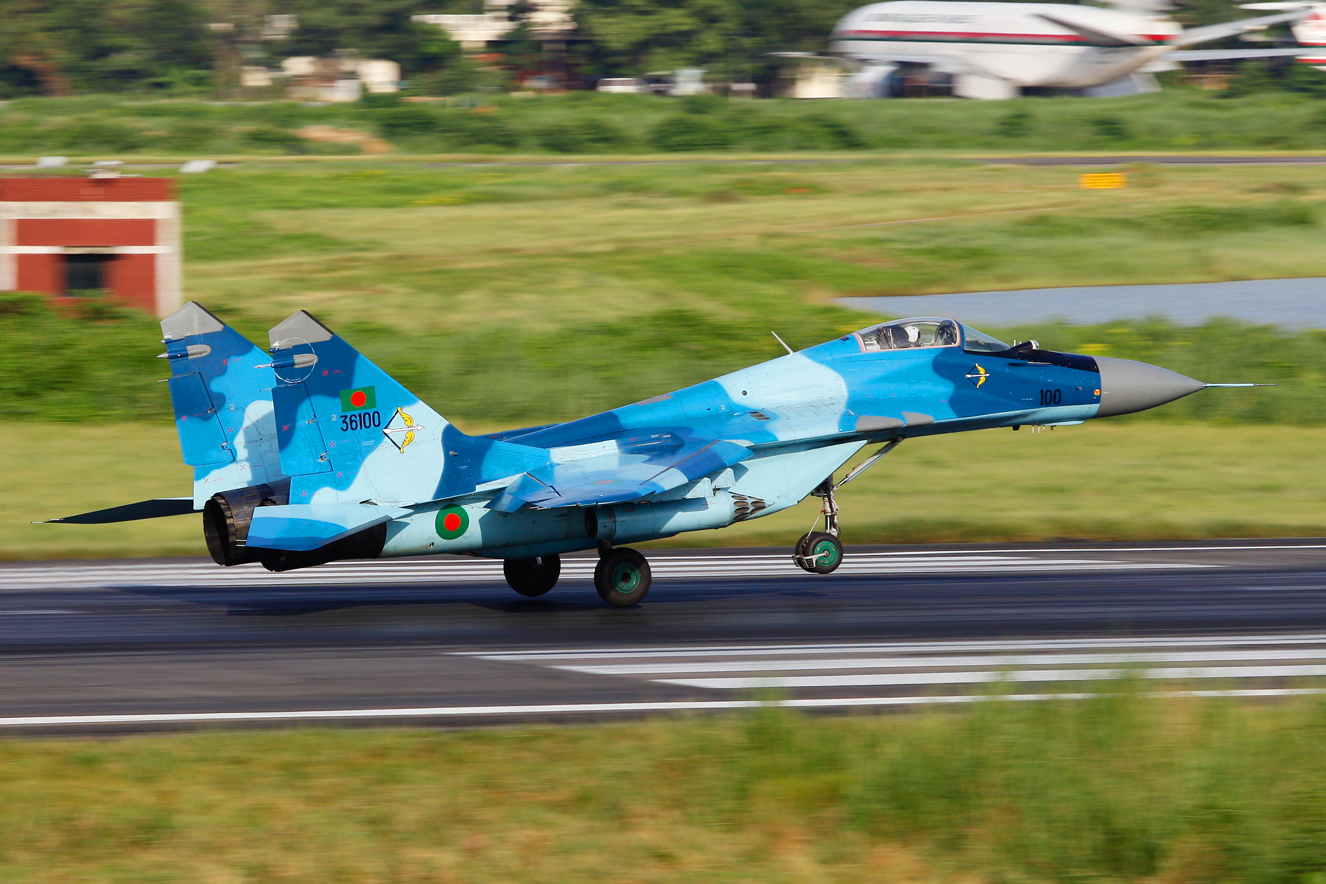 36100 Bangladesh Air Force MIG-29 Landing at Hazrat Shahjalal International Airport Dhaka VGHS / DAC